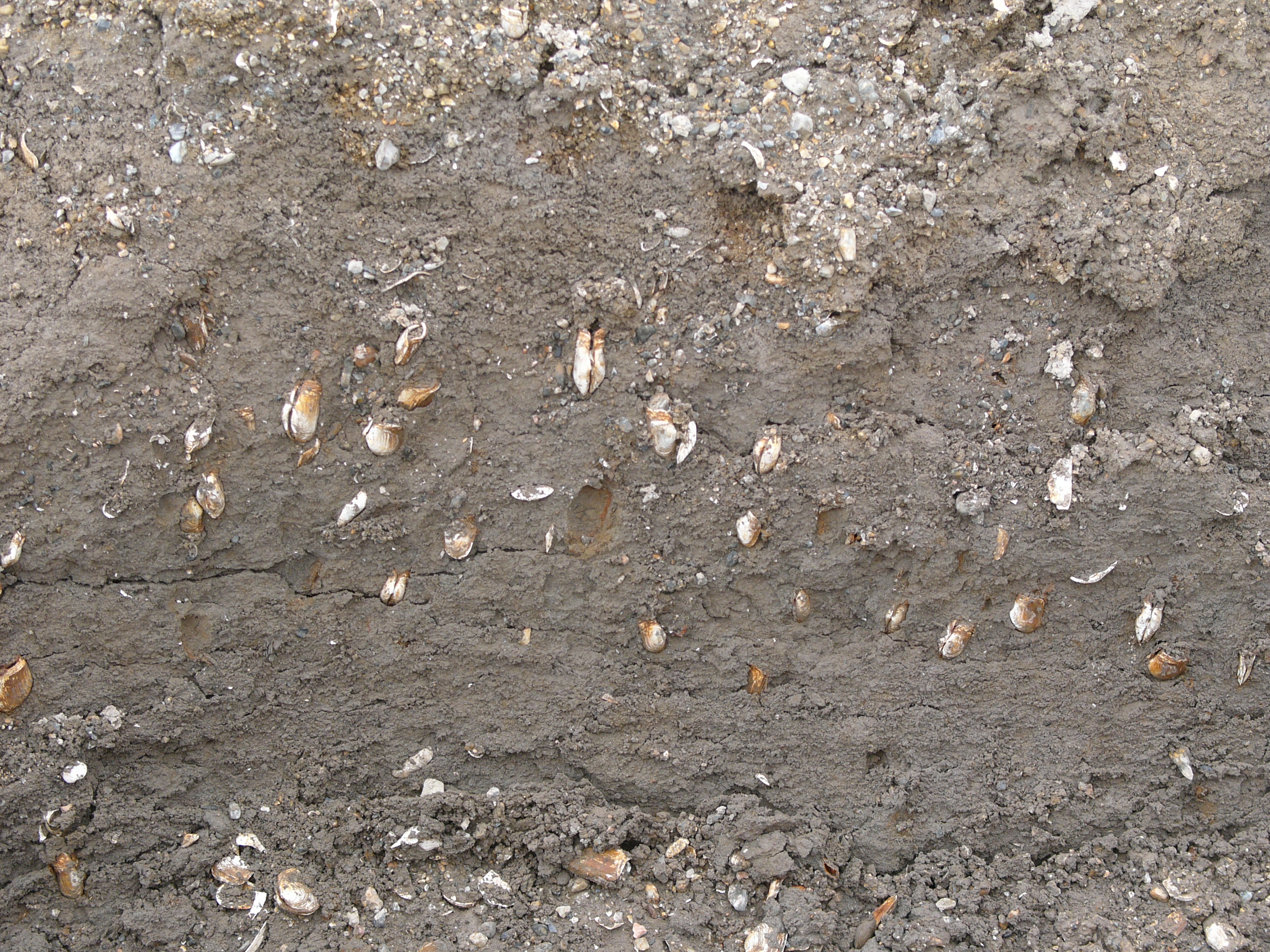 Mya truncata, subrecent, in situ position in coastal sediments at the coast of Spitzbergen